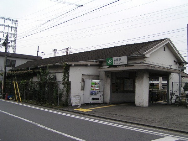 Anzen Station, JR East Tsurumi Line, tsurumi-ku, yokohama, Japan